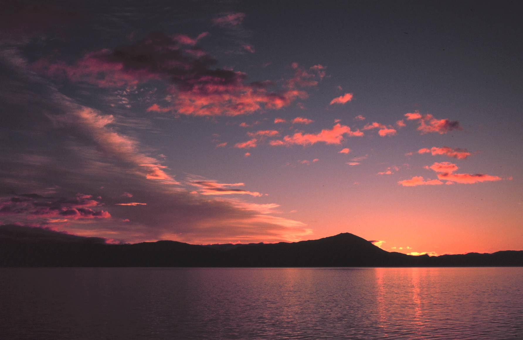 Sunrise in Southeast Alaska.